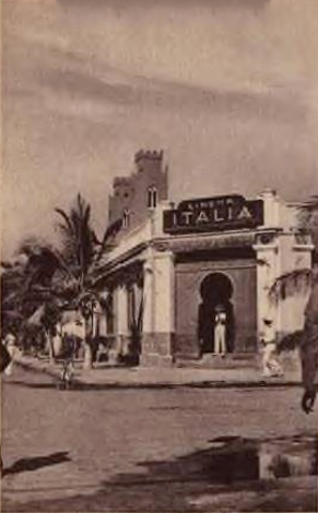 Old Postcard of Italian Somalia, dated 1937, showing the Cinema Italia in Mogadiscio, near the catholic Cathedral. The postcard was taken from my grandfather album. I have done the digital photo of the postcard, cut it and added data with my software.